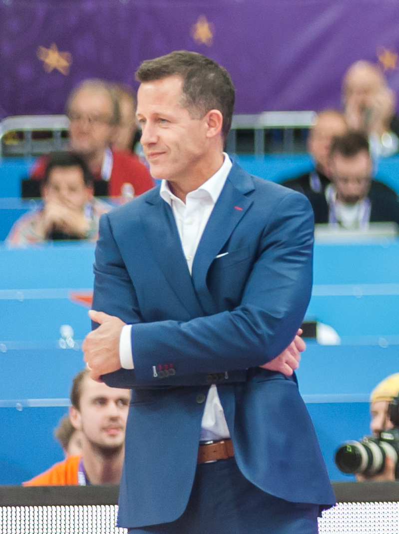 EuroBasket 2017 Group A game between Finland and Iceland at Hartwall Arena in Helsinki, Finland.